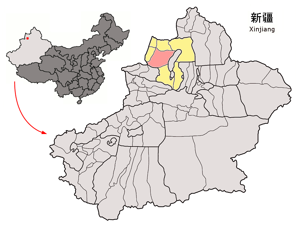 Location of Toli County (pink) and Tacheng Prefecture (yellow) within Xinjiang autonomous region of China Map drawn in september 2007 using various sources, mainly : Xinjiang Uygur autonomous region administrative regions GIS data: 1:1M, County level, 1990 Xinjiang Counties map from